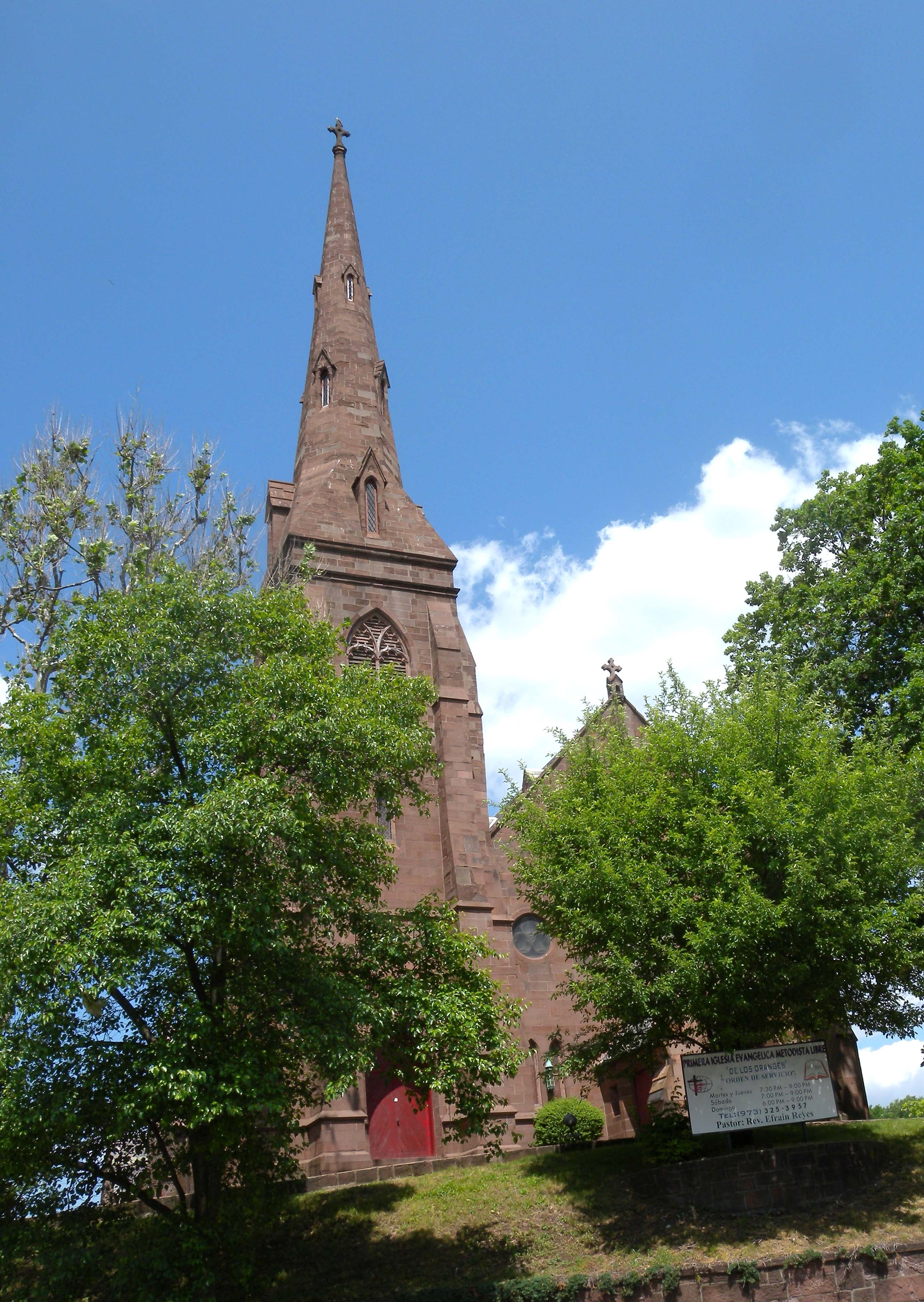 Looking north at Evangelical Methodist Church in West Orange, New Jersey on a mostly sunny midday.